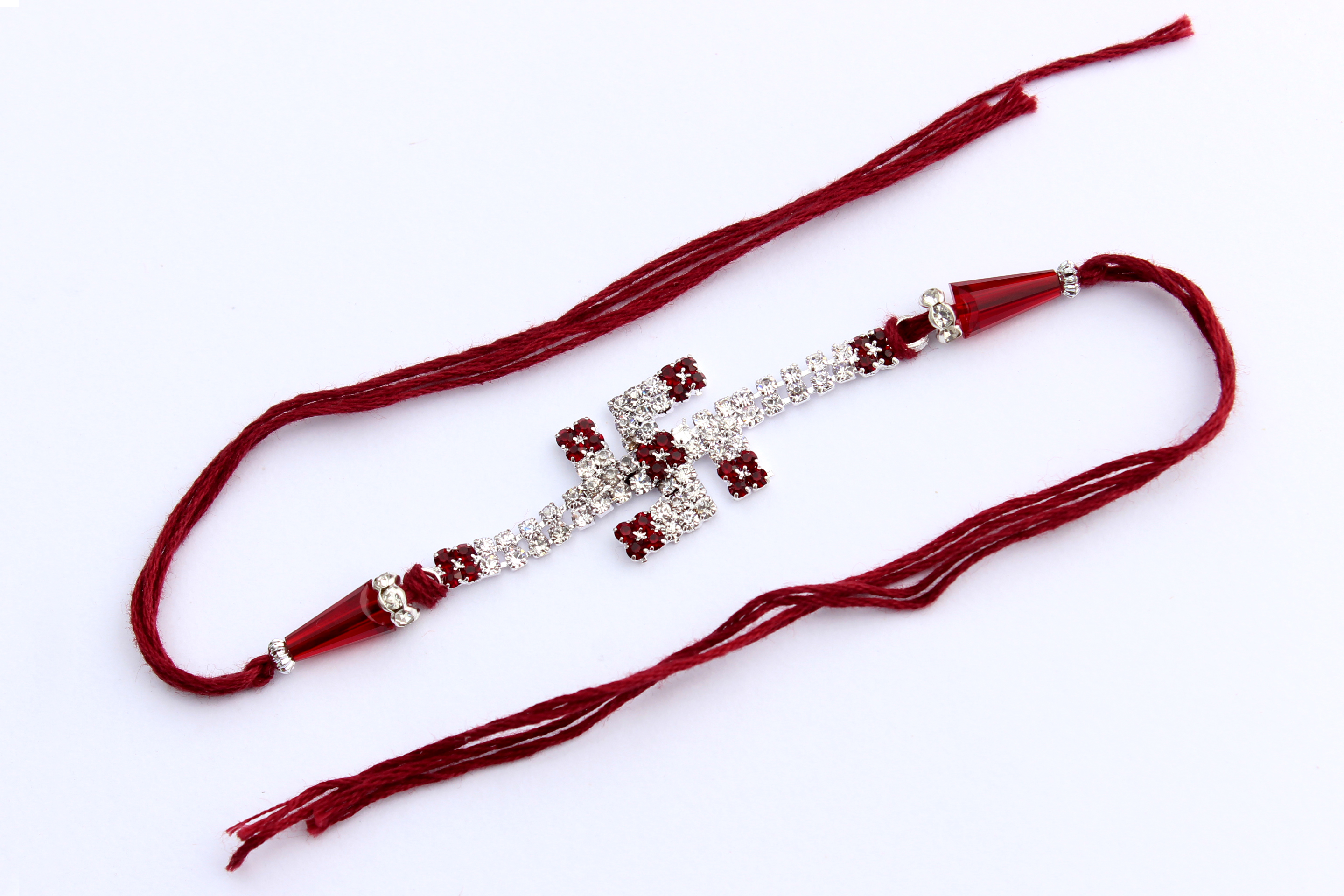 Swastik in Rakhi